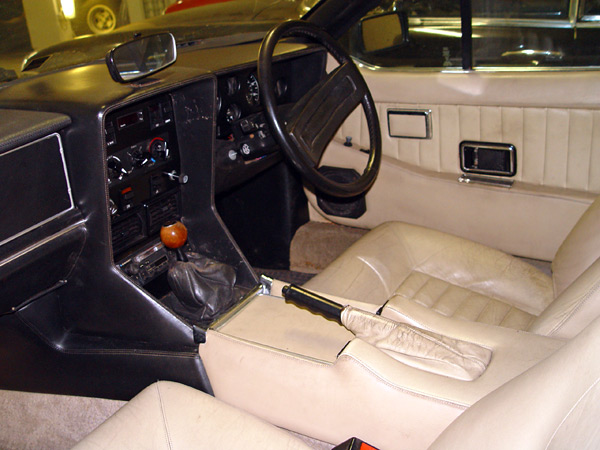 1981 Lotus Type 83 Elite interier